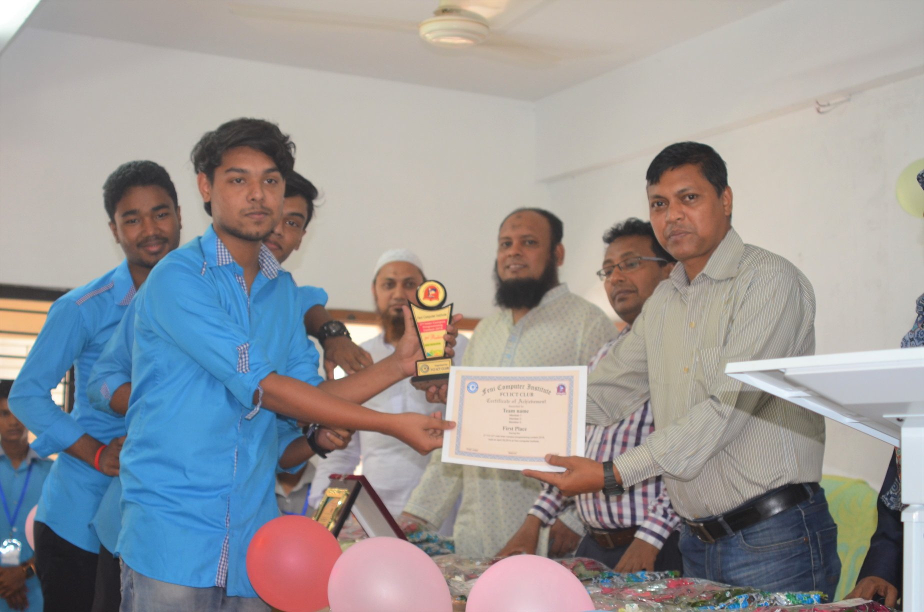 FCI ICT Club